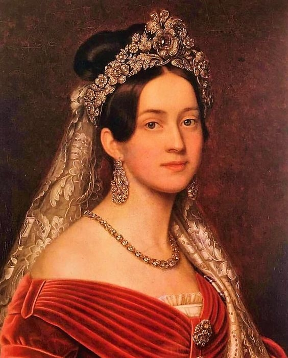 Amalie von Oldenburg, Queen consort of Greece